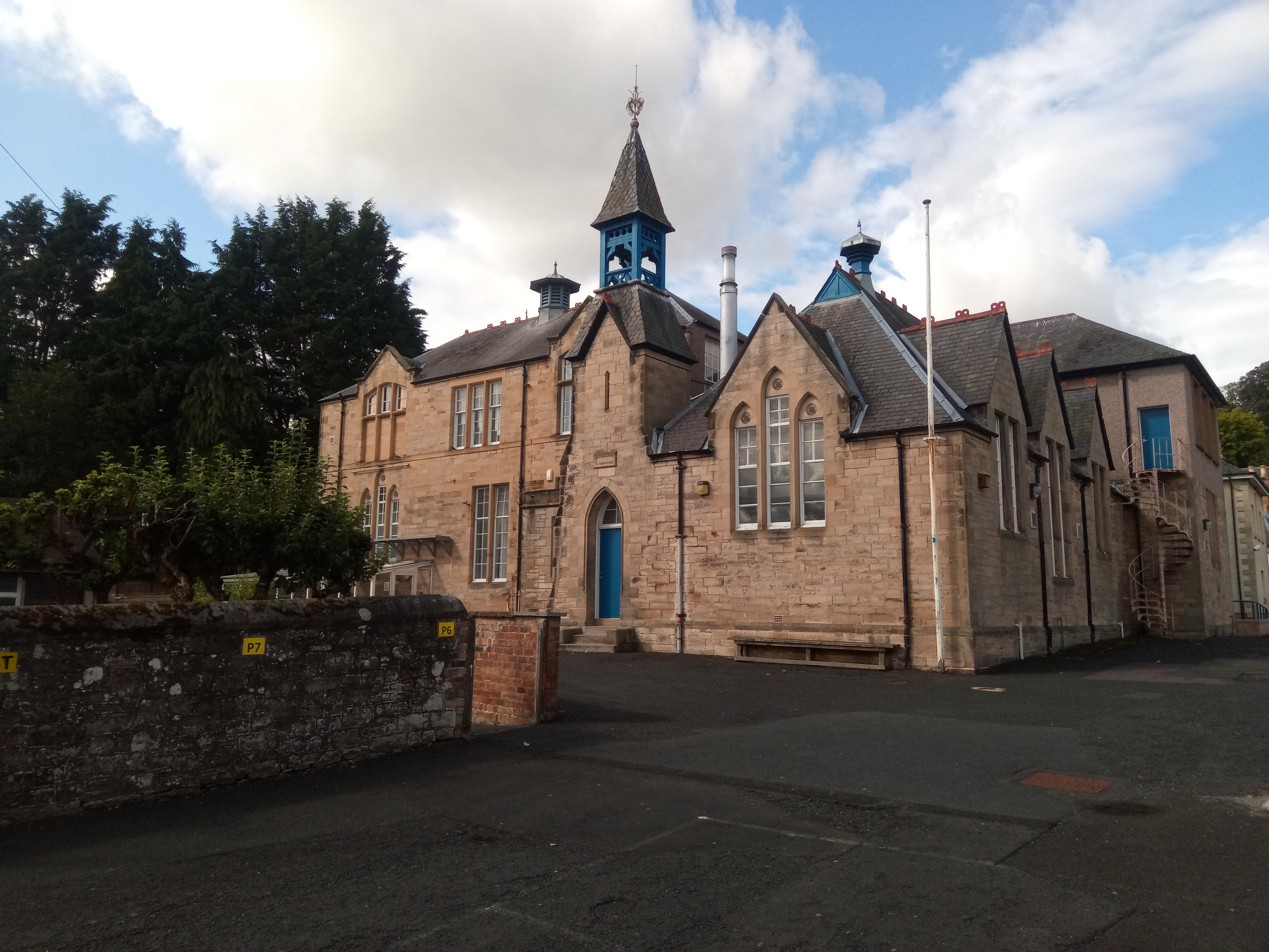 Jedburgh Grammar School 1880s block, High Street, Jedburgh Wikidata has entry Q56635847 with data related to this item.